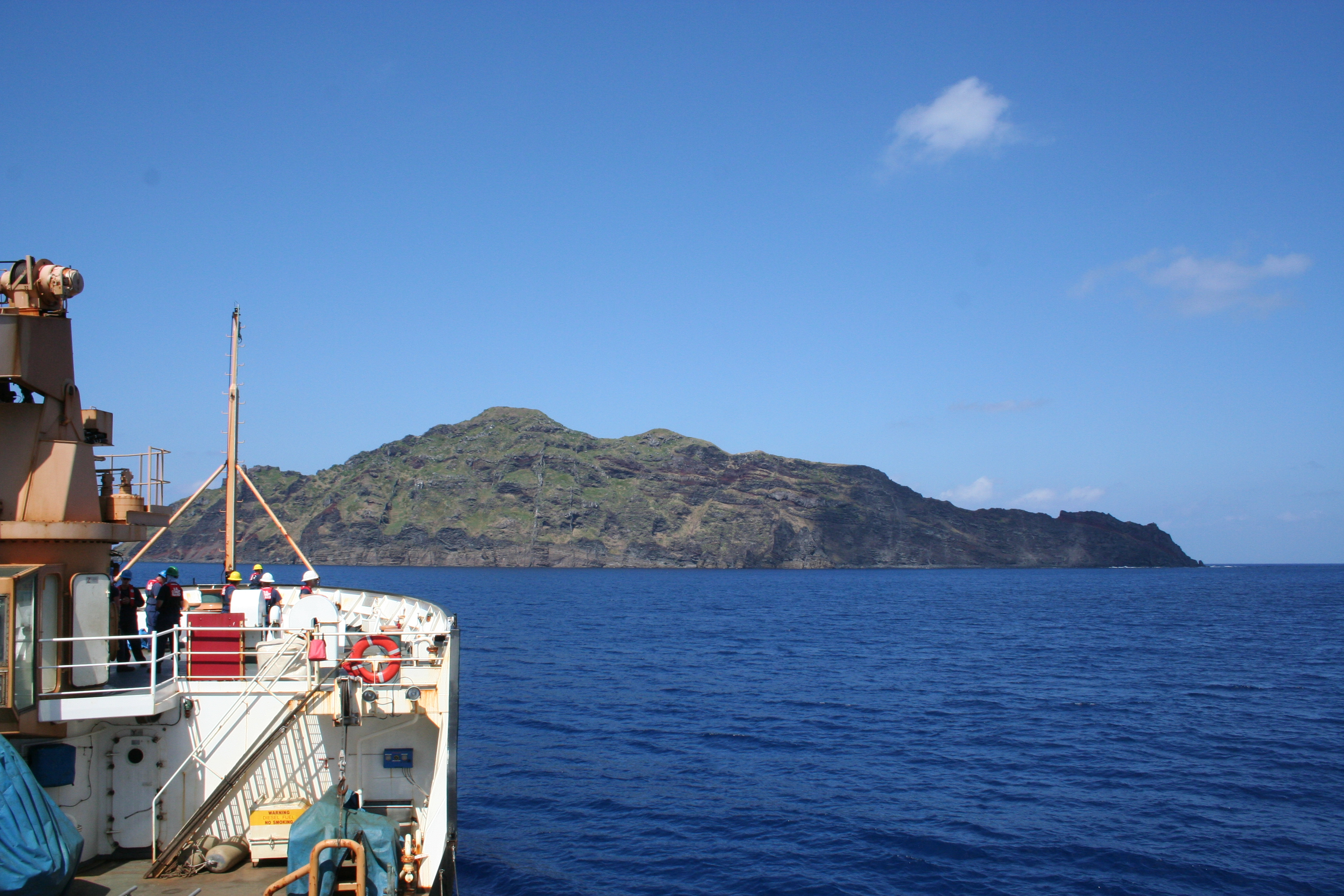 Approaching East Island, Maug Islands, Northern Mariana Islands. Taken from USCGC Sequoia.